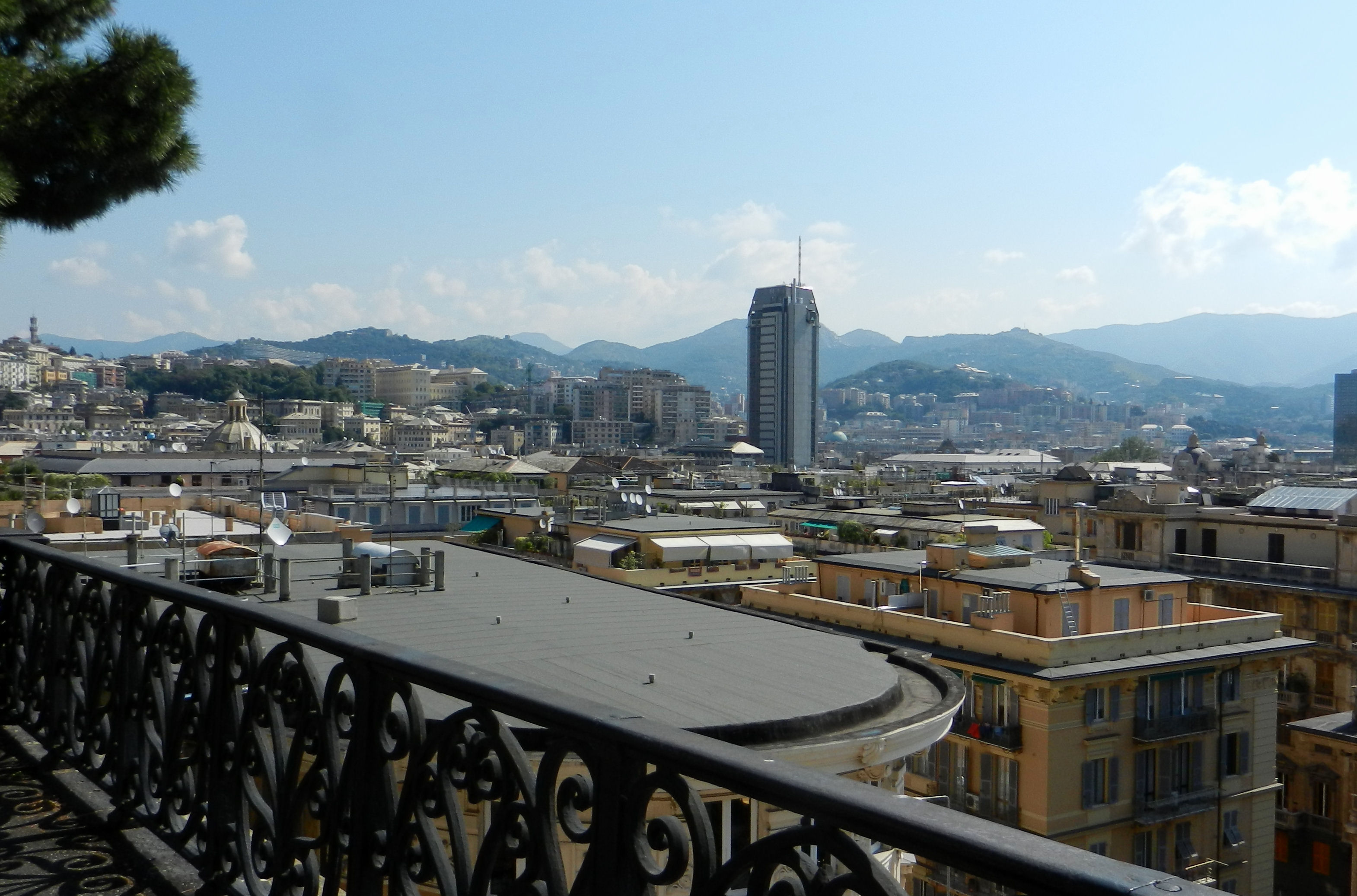 Genoa (Italy), quarter of San Vincenzo, view from St. Chiara walls